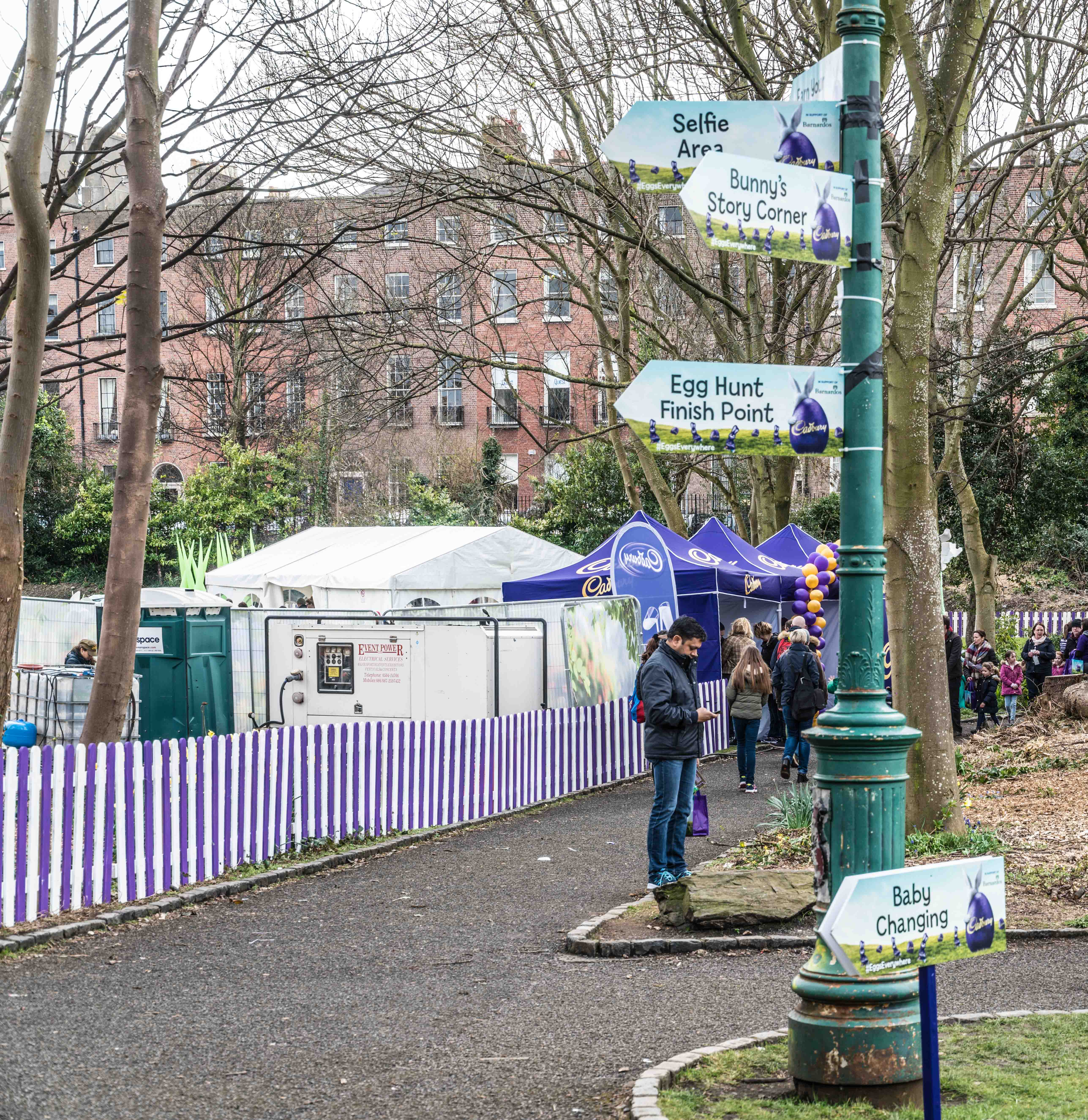 Today I thought that it might be a good idea to photograph scenes and events relating to Easter so I visited Merrion Square and I discovered that Cadbury had organised a family friendly Easter Egg hunt in aid of a charity but something caught my attention by its absence. There were all sorts of posters, notices, balloons and signs but nowhere did I see the word ‘Easter’. I checked online and Barnados described the event as “Cadbury Easter Egg Hunt in Support of Barnardos!” while Cadbury described the event as “Join The Egg Hunt Fun This Easter”. Not a huge difference but then I came across the following: Cadbury's, a leading chocolate manufacturer, is denying that the word “Easter” has been dropped from the packaging of their famous chocolate eggs this year in an attempt to market their products in a more secular way. A spokesperson from Cadbury’s has explained to the media that “Easter” was not prominently displayed on the chocolate egg packaging because they felt that “Easter” was implied by the product itself, denying that it was down to political or religious correctness. “Most of our Easter eggs don’t say Easter or egg on the front as we don’t feel the need to tell people this – it is very obvious through the packaging that it is an Easter egg,” said the spokesperson. 2016 Dublin Easter Rising centenary parade